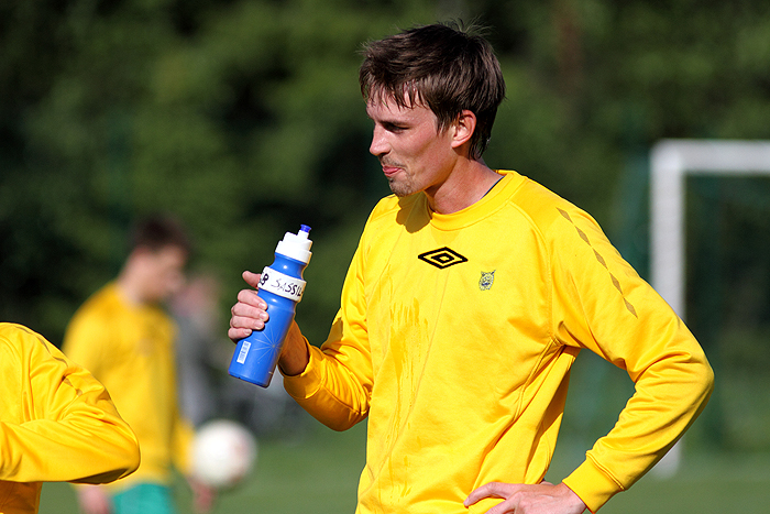 Football player Toni Kallio training with FC Ilves